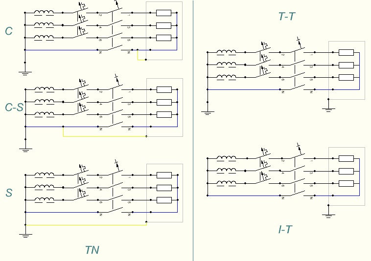 Ground Systems